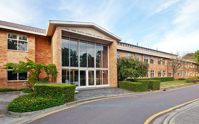 Photograph of the ANU Medical School